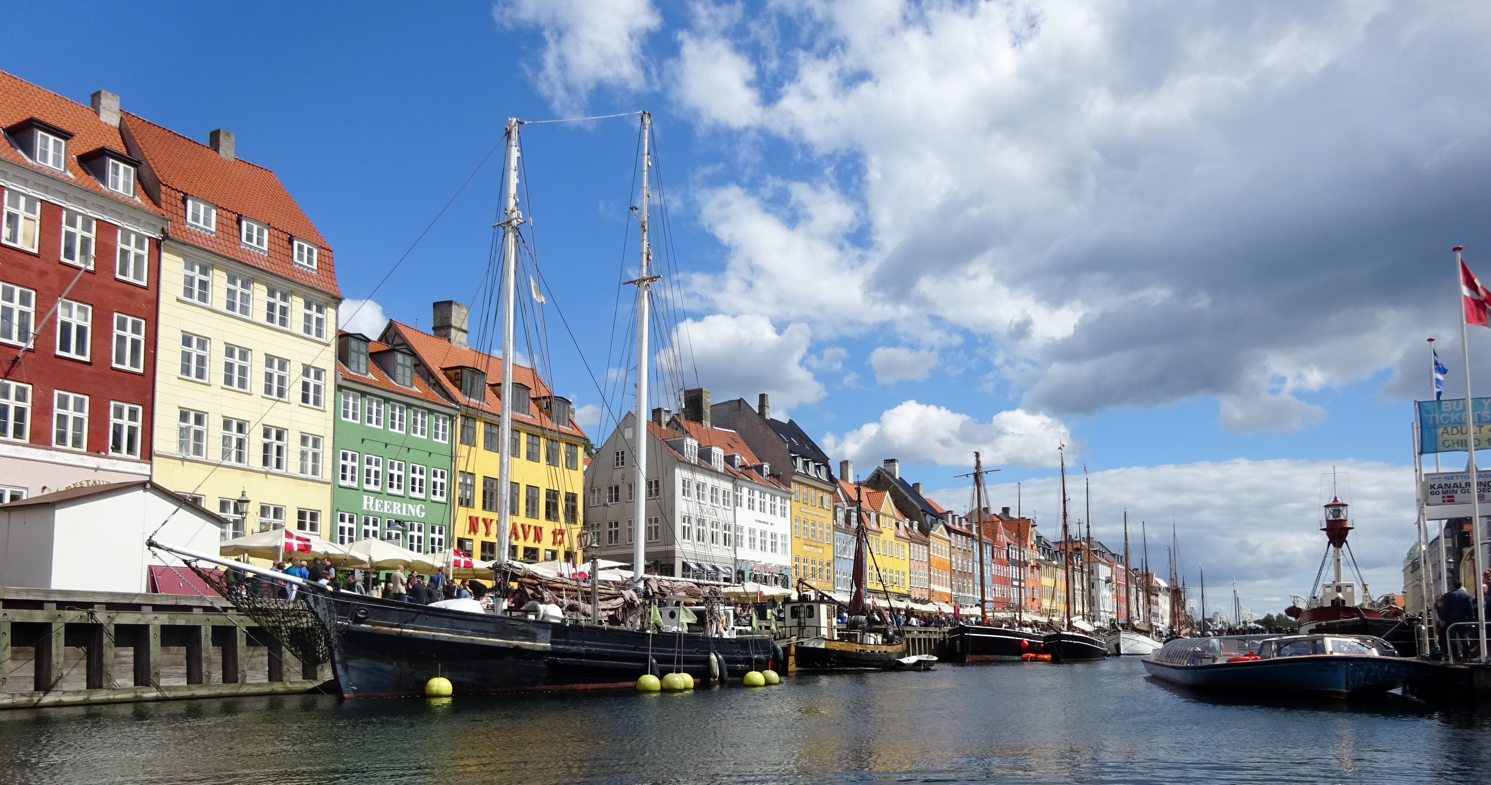 Colourful façades along Nyhavn